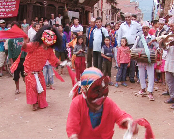 Lakhe dance in Khokana, Kathmandu